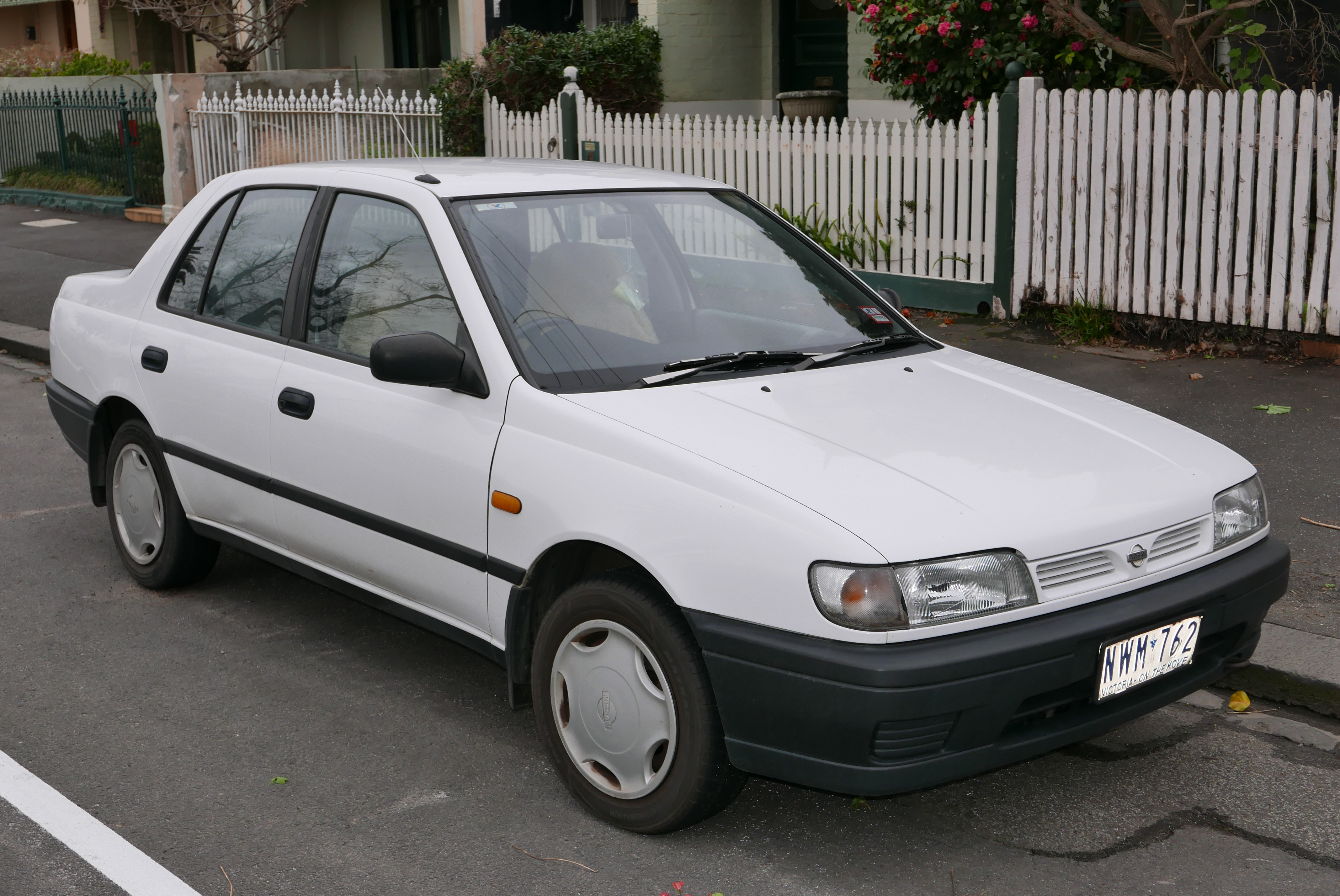 1995 Nissan Pulsar (N14 CBU) LX Limited sedan. Despite the date discrepancy between the description and the vehicle registration information below, a check of the VIN reveals a build date of February 1995. Photographed in Carlton North, Victoria, Australia. Vehicle registration enquiry results Jurisdiction Victoria Registration NWM762 Chassis code JN1BEAN14A0402038 Engine code GA16015160C Compliance date 1996-03 Year of manufacture 1996